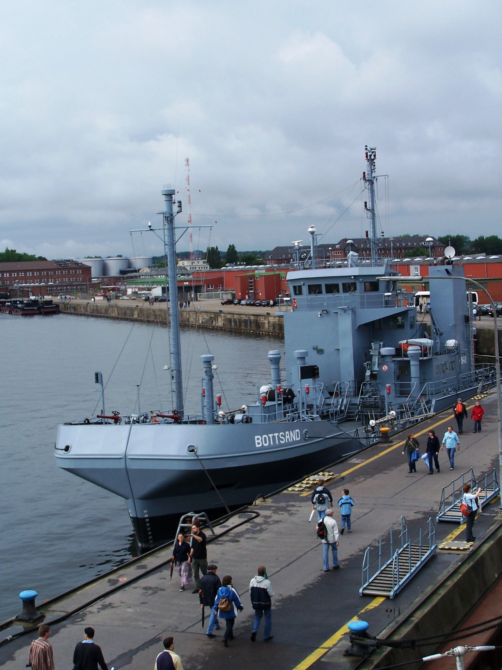 Bottsand at the Kiel Week 2007.